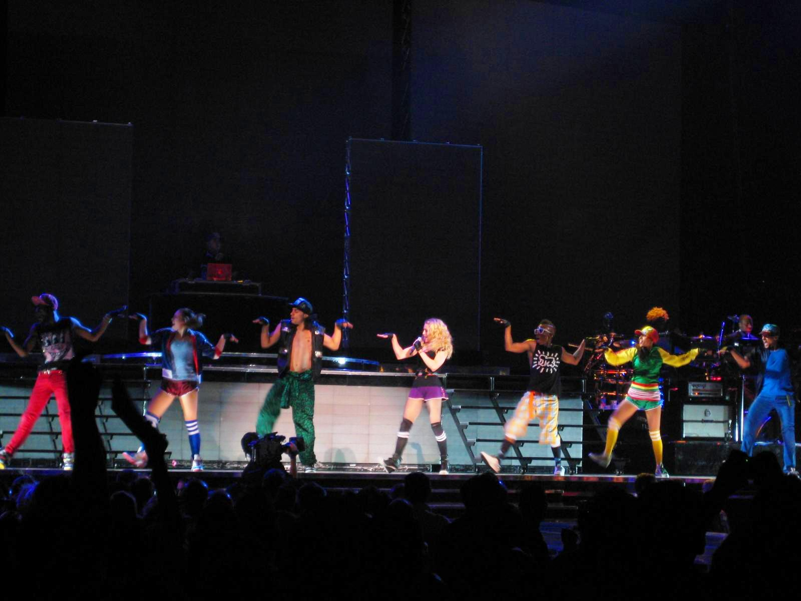 Madonna performing Music